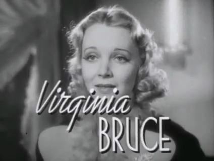 Virginia Bruce in The First Hundred Years (1938), film directed by Richard Thorpe.